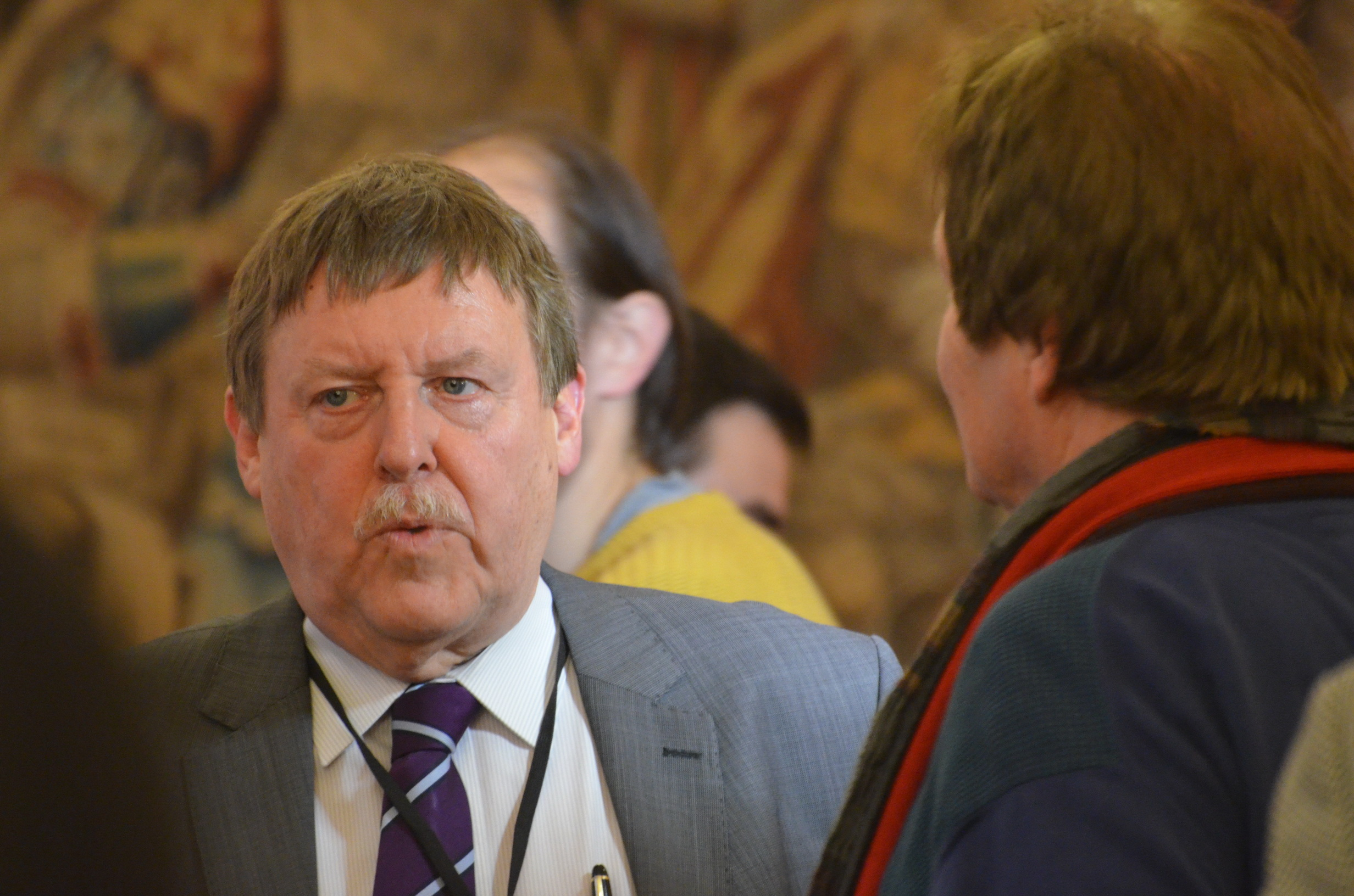 Wikimedia Belgium, foundation event